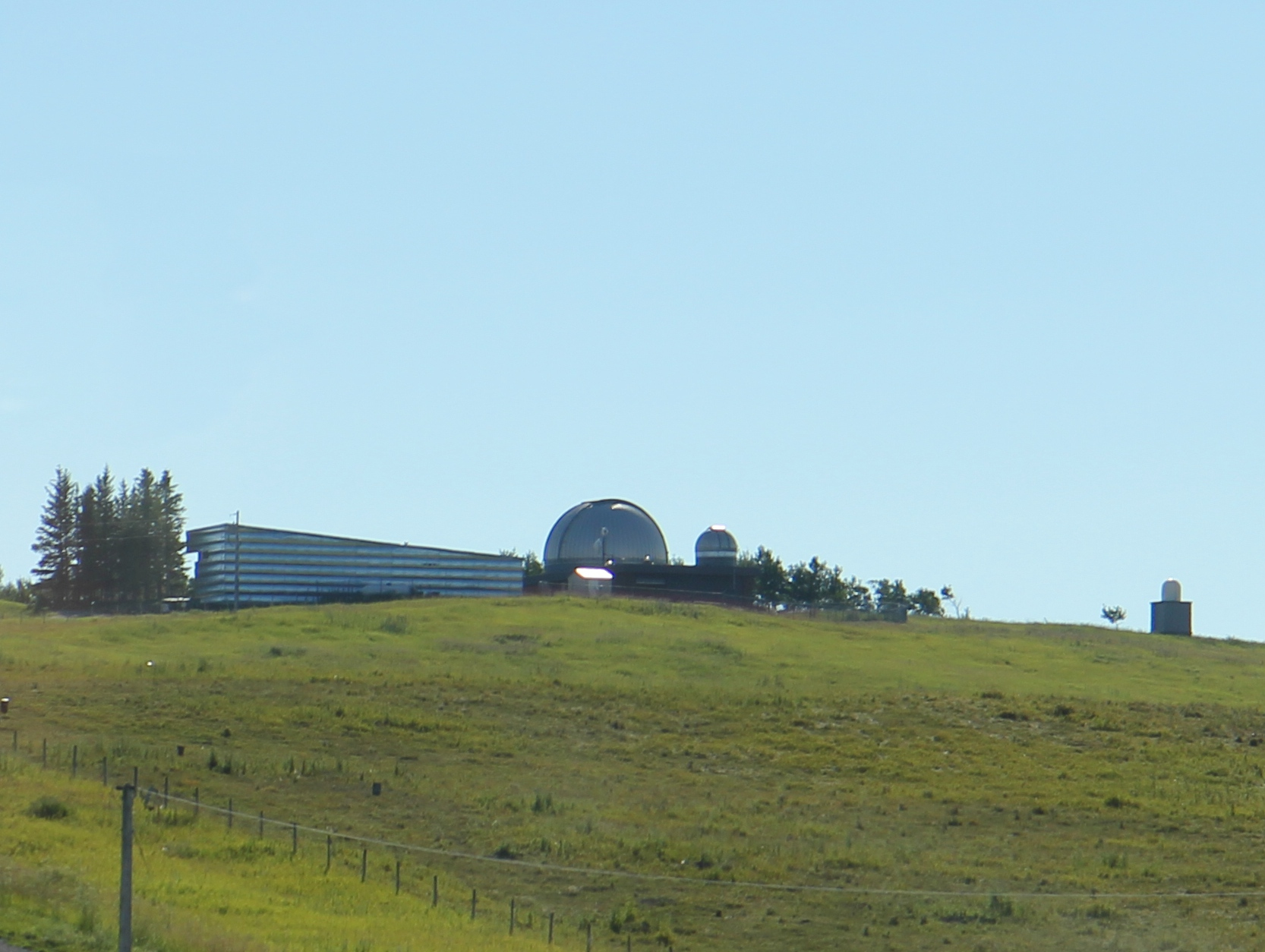 The Rothney Astrophysical Observatory photographed from the Cowboy Trail.